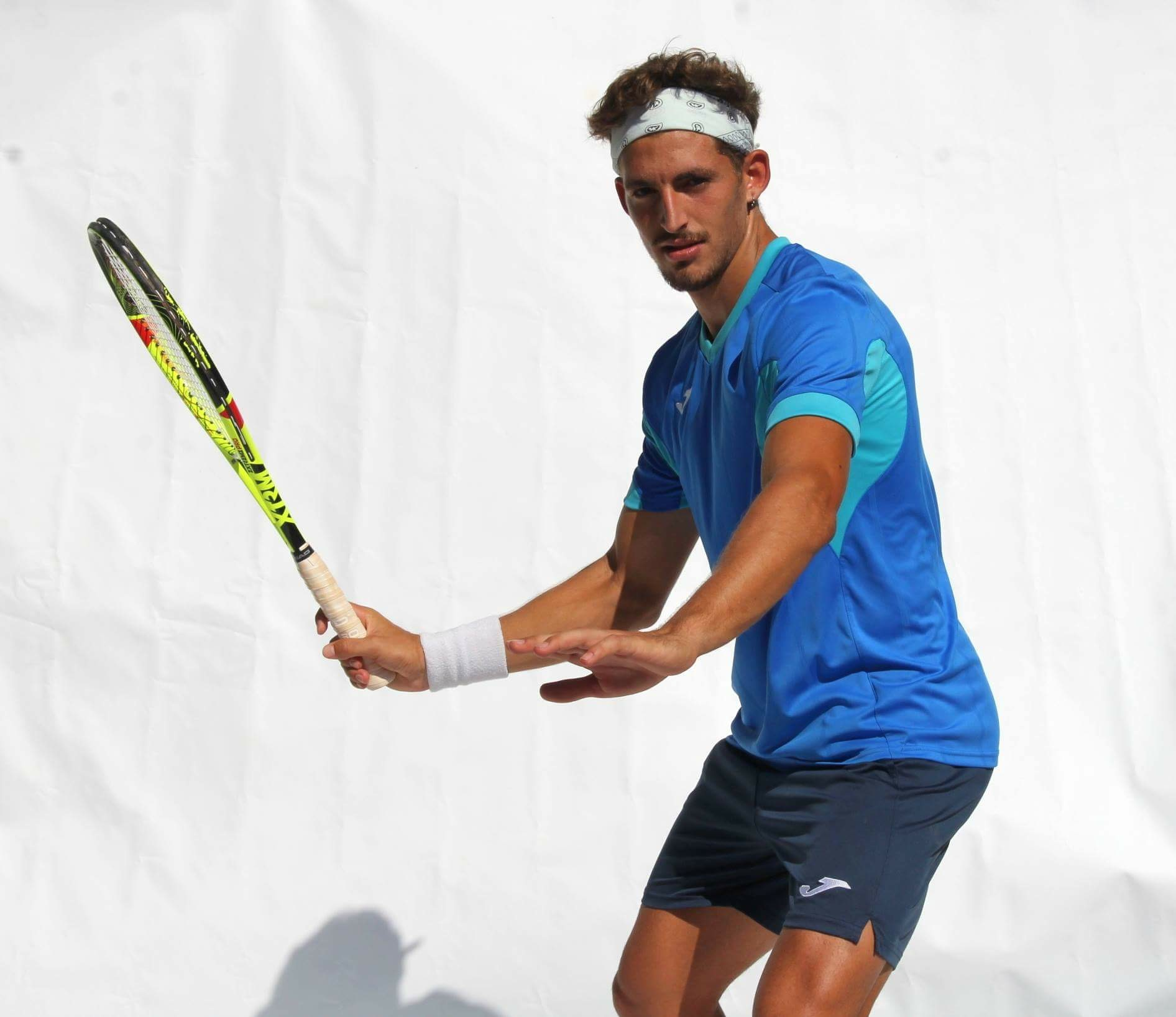 Mario posando para una sesion de fotos para una revista